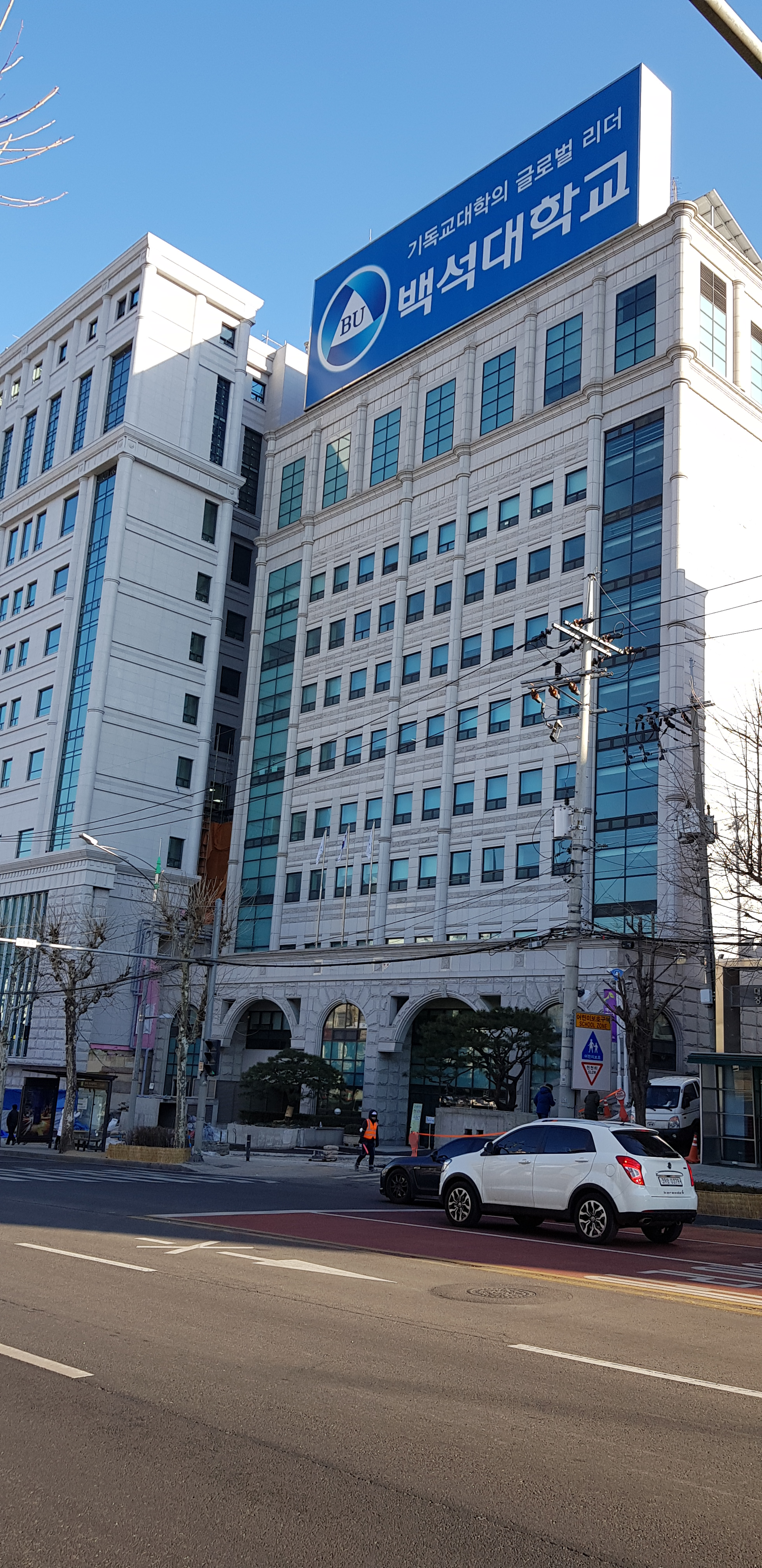 Baekseok University Bangbaedong Campus